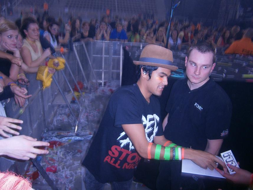 Braxton with fans. Lodz, Poland